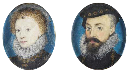 Pair of stamp size miniatures of Elizabeth I of England and her favourite Robert Dudley Earl of Leicester. Private collection. [1]